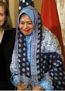 2007 International Women of Courage Award